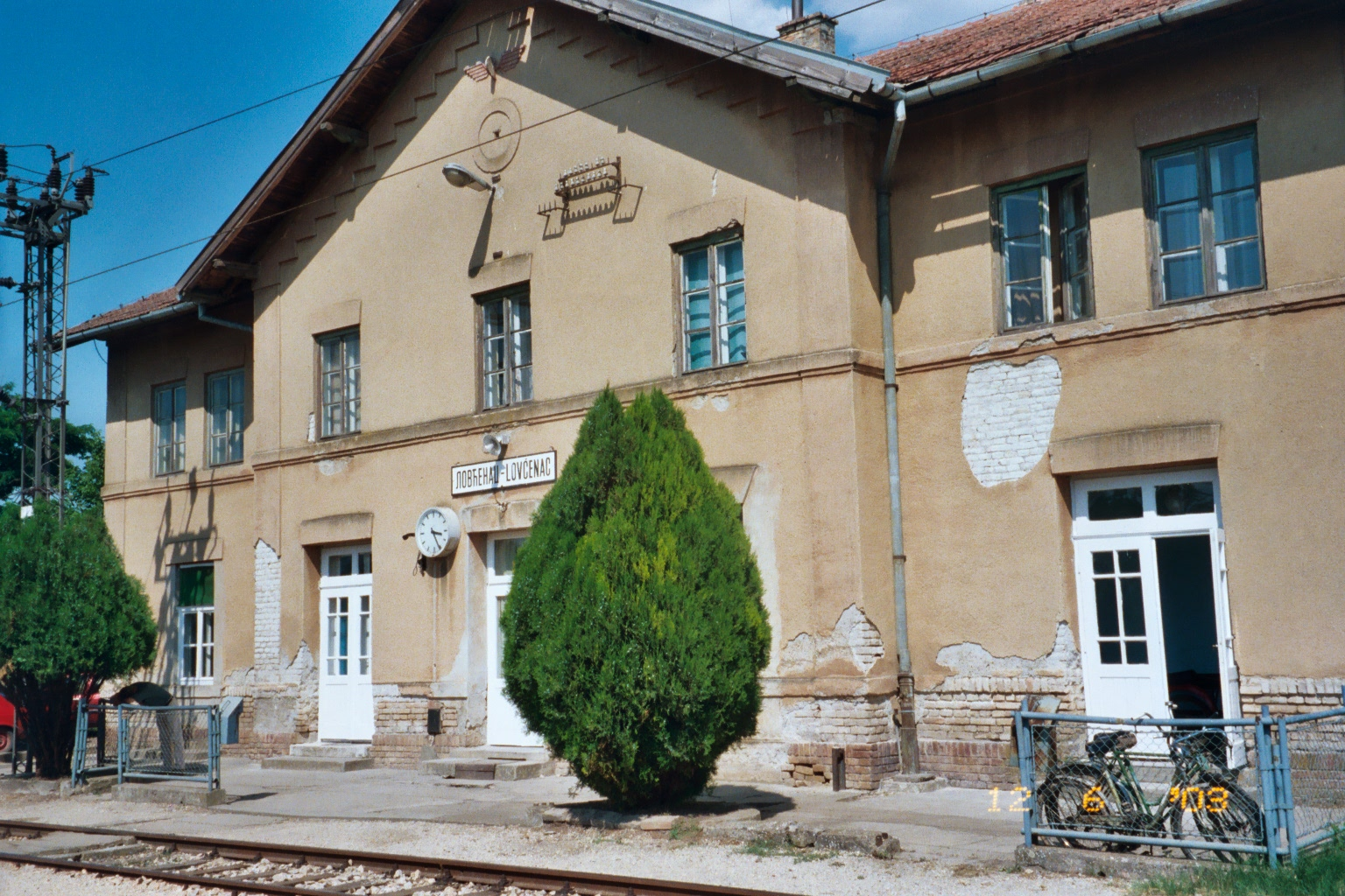 Trainstation in Lovćenac, Serbia. I took this picture and release all rights.